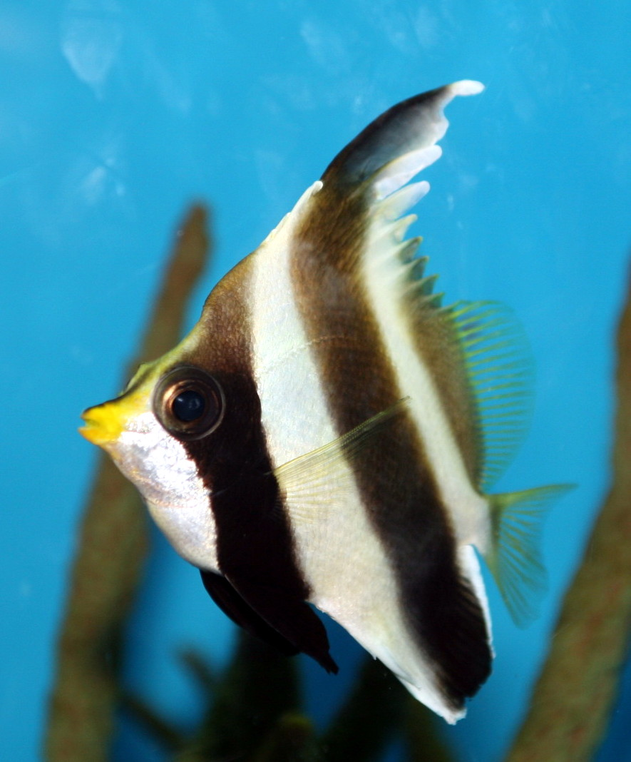 The Pennant Bannerfish can be recognised by its colouration. It is white with a black band crossing the head and extending through the ventral fins. Two brown bands cross the body. The snout is yellow (chryso [Greek] - gold, stoma [Greek] - mouth). The fourth dorsal fin spine supports an expanded pennant. This species grows to 18cm in length. The Pennant Bannerfish eats mainly coral polyps. It is known from the western and southern Pacific. In Australia it is recorded from the central coast of Western Australia around the tropical north (except the Gulf of Carpentaria) and south to southern Queensland.